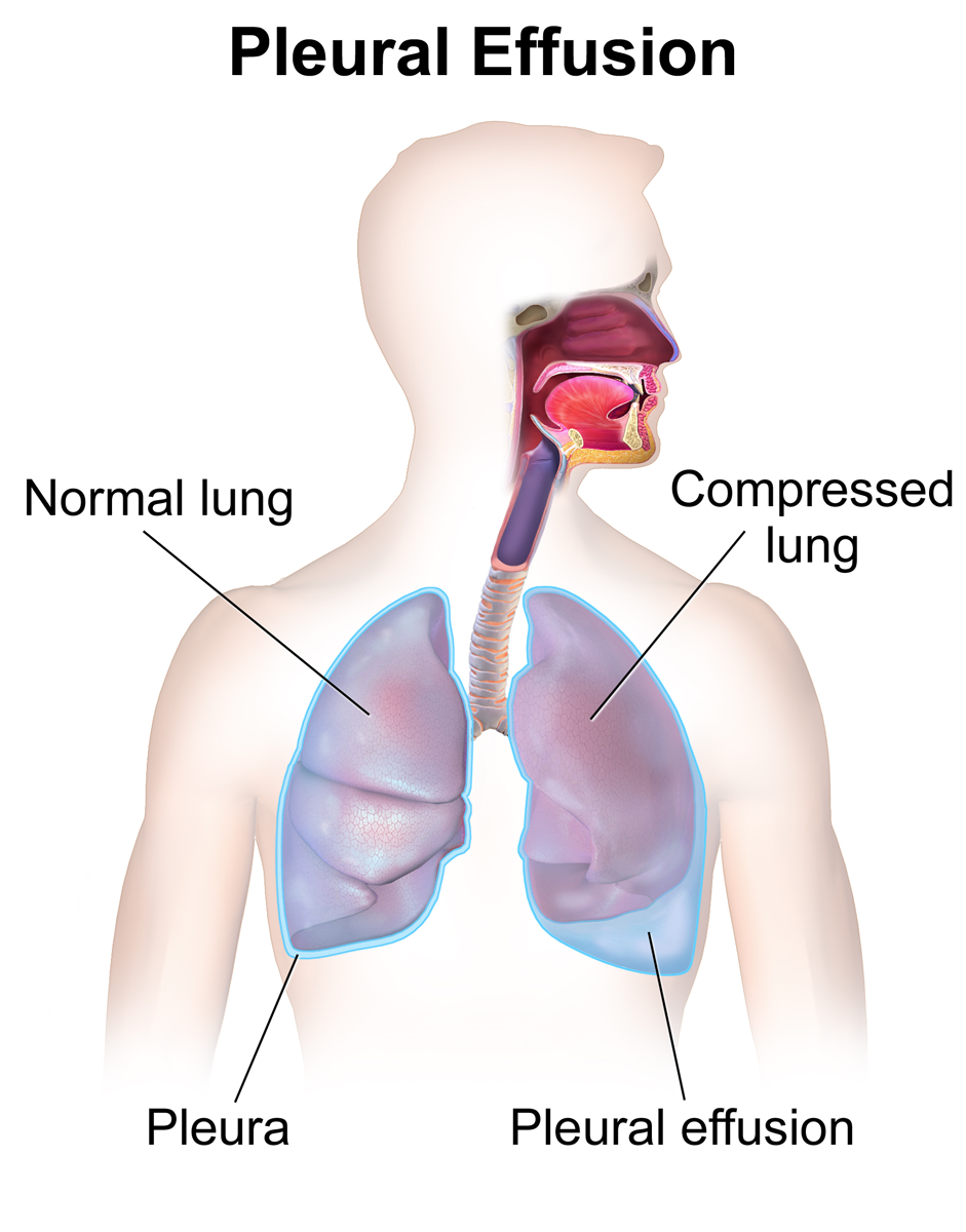 Pleural Effusion. See a full animation of this medical topic.